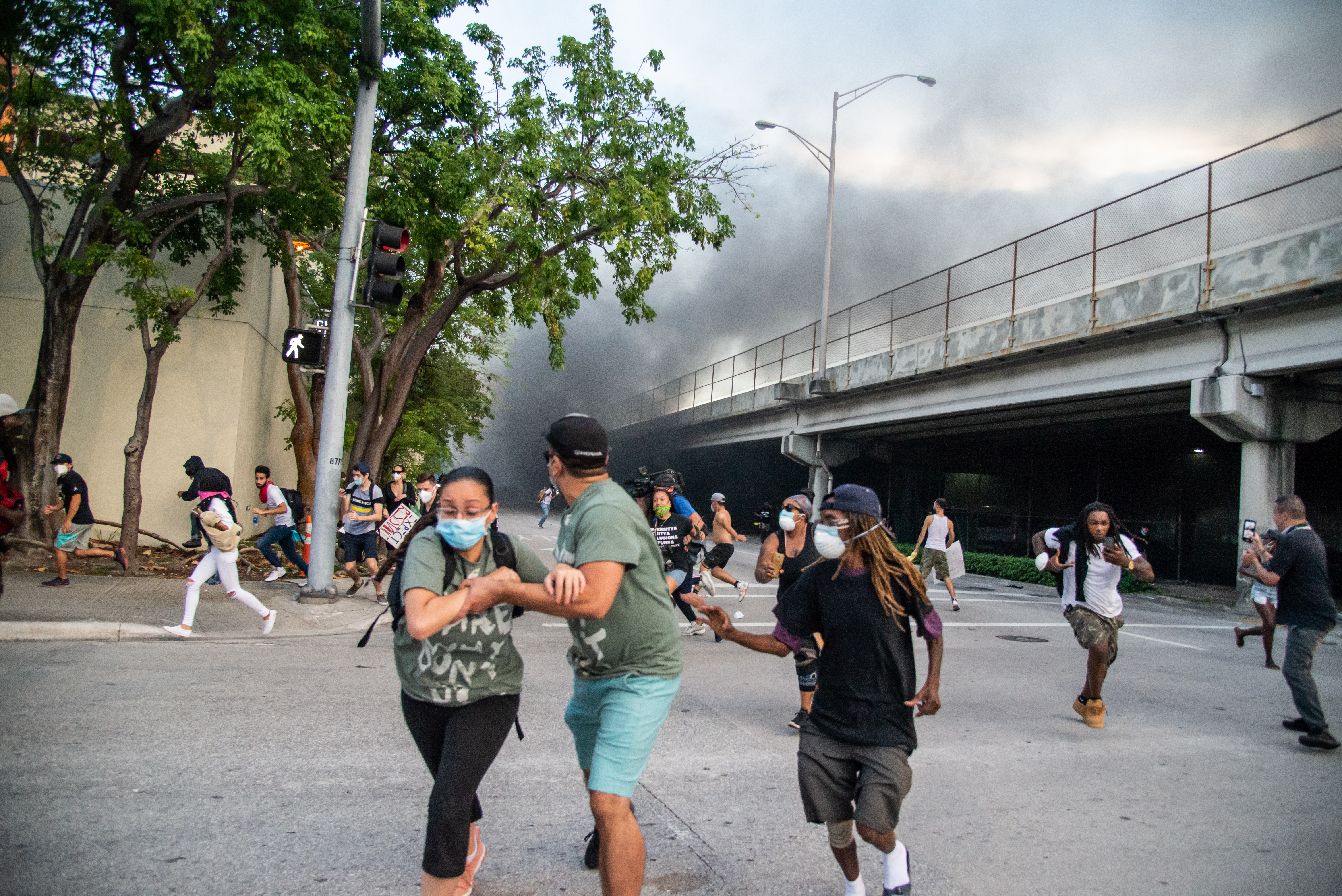 Free commercial use with attribution (Mike Shaheen) Let me know if you use them